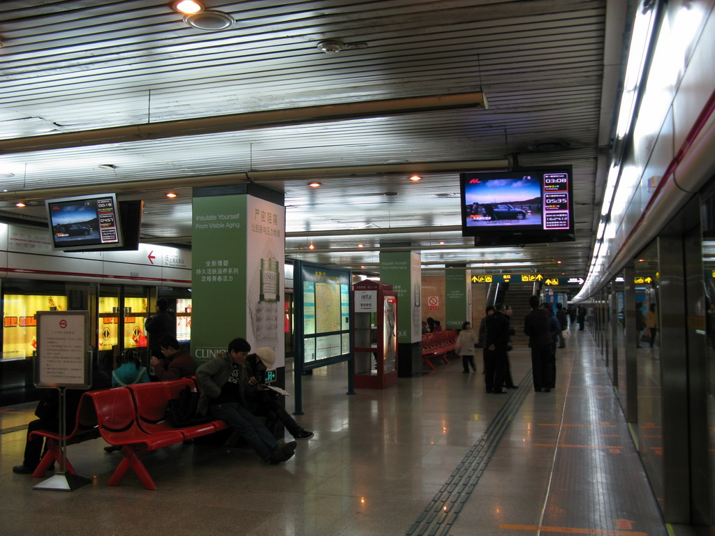 Line 1 Platform of Changshu Road Station